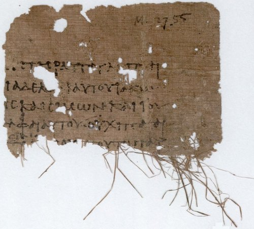 Papyrus 103 verso